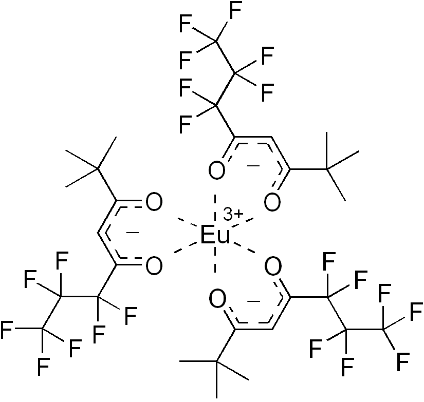 chemical structure of Eufod - Eu(fod)3